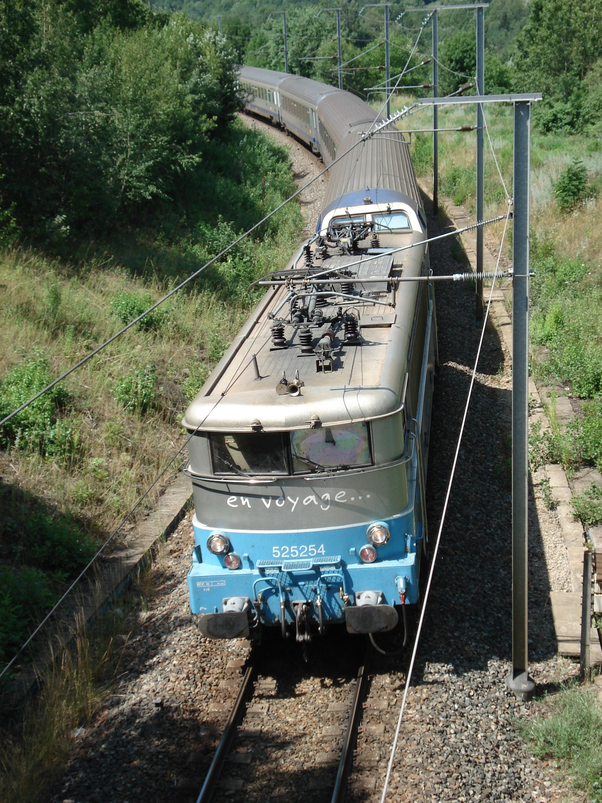 BB 25254 SNCF Locomotive in "en voyage" (=on the road) livery